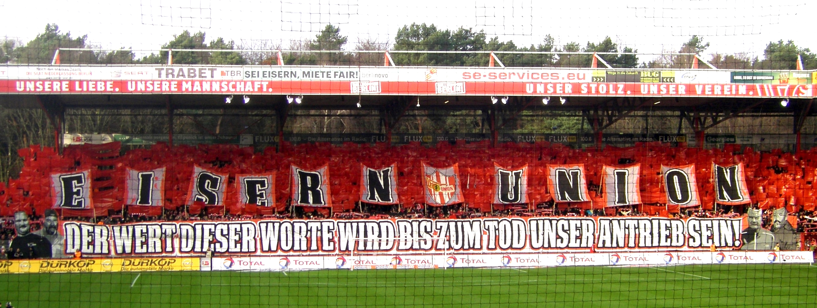 Supporters of the German football club 1. FC Union Berlin doing a choreography